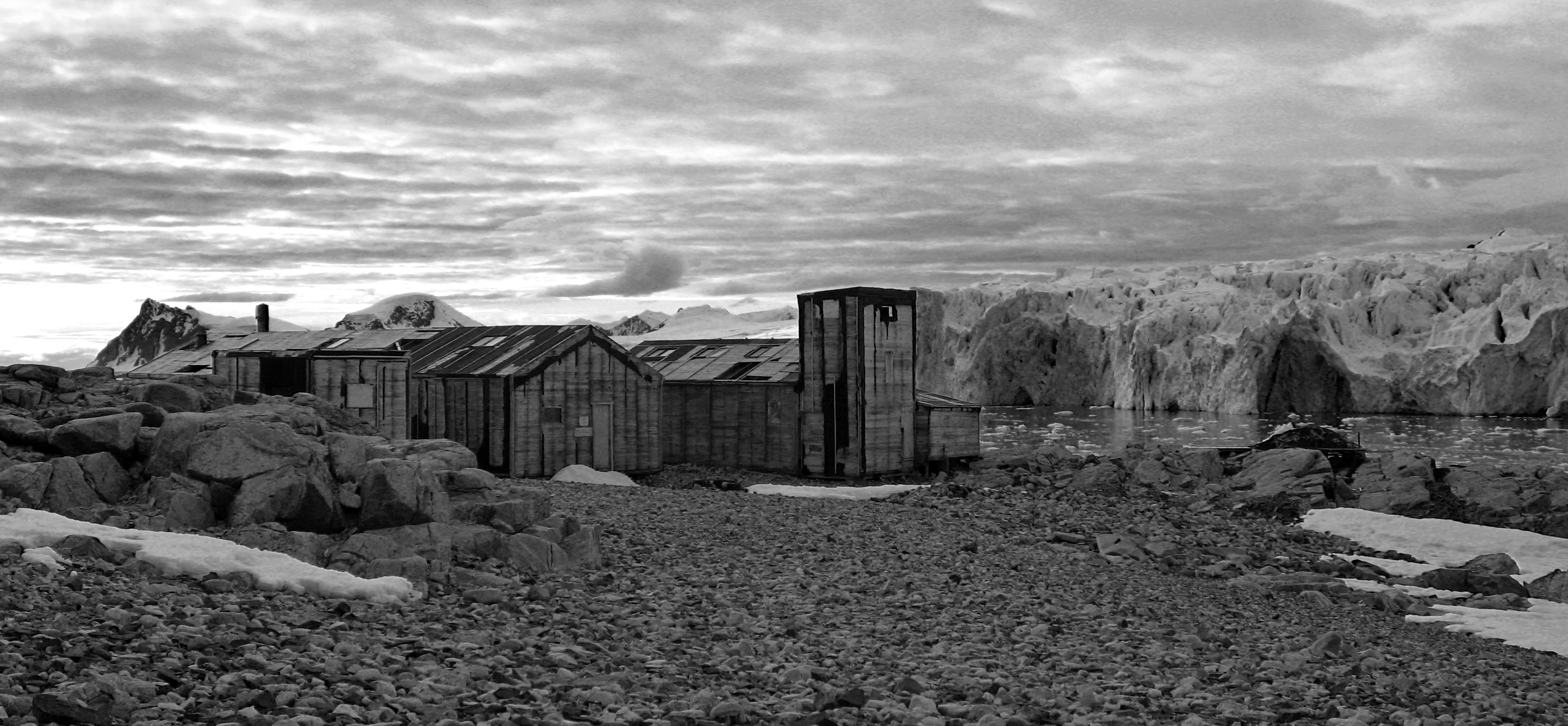 Taken on trip to the Antarctic Peninsula in february 2009